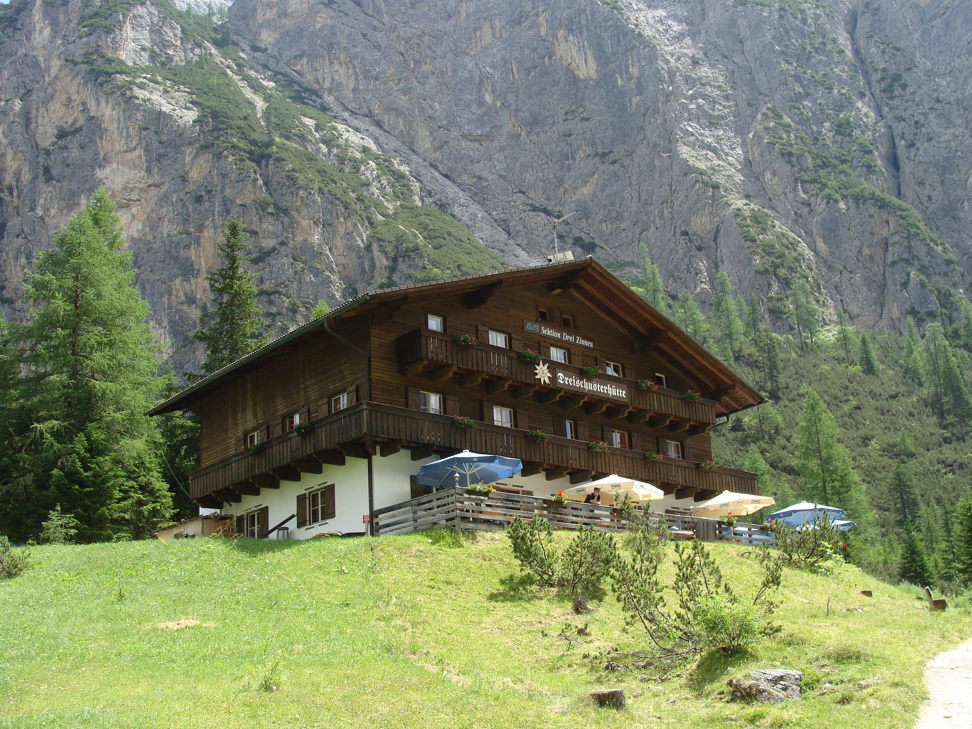 Dreischuster hut (Sexten Dolomites)